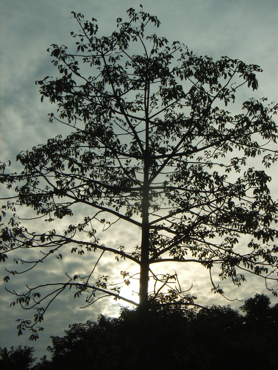 觀塘 麗港公園